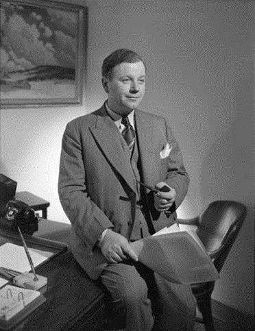 Farquhar Oliver leaning on his desk